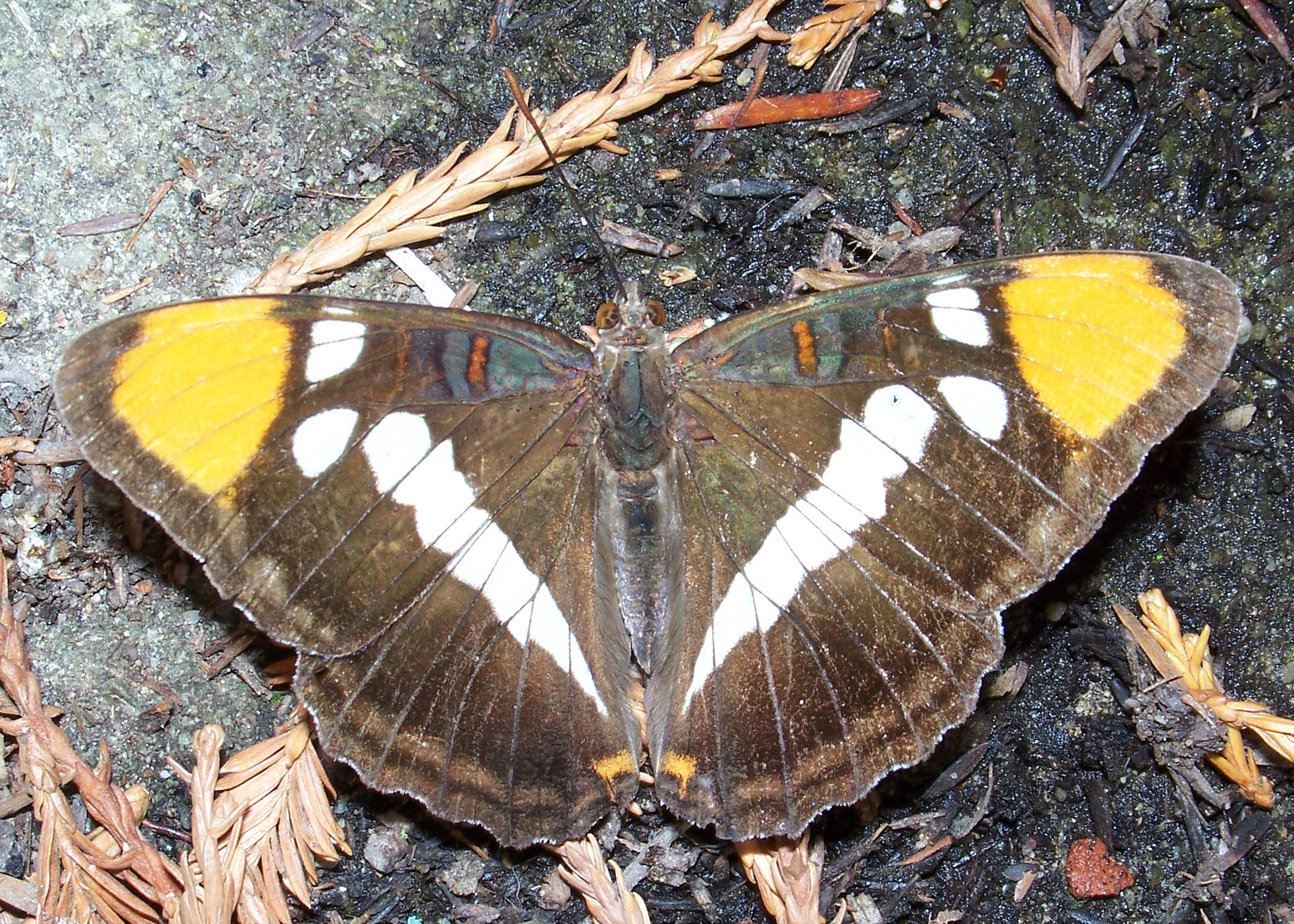 California Sister (Adelpha californica) Made in Saratoga, California. Identified by Alan Chin-Lee.